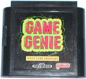 A picture of the Game Genie for the Sega Genesis